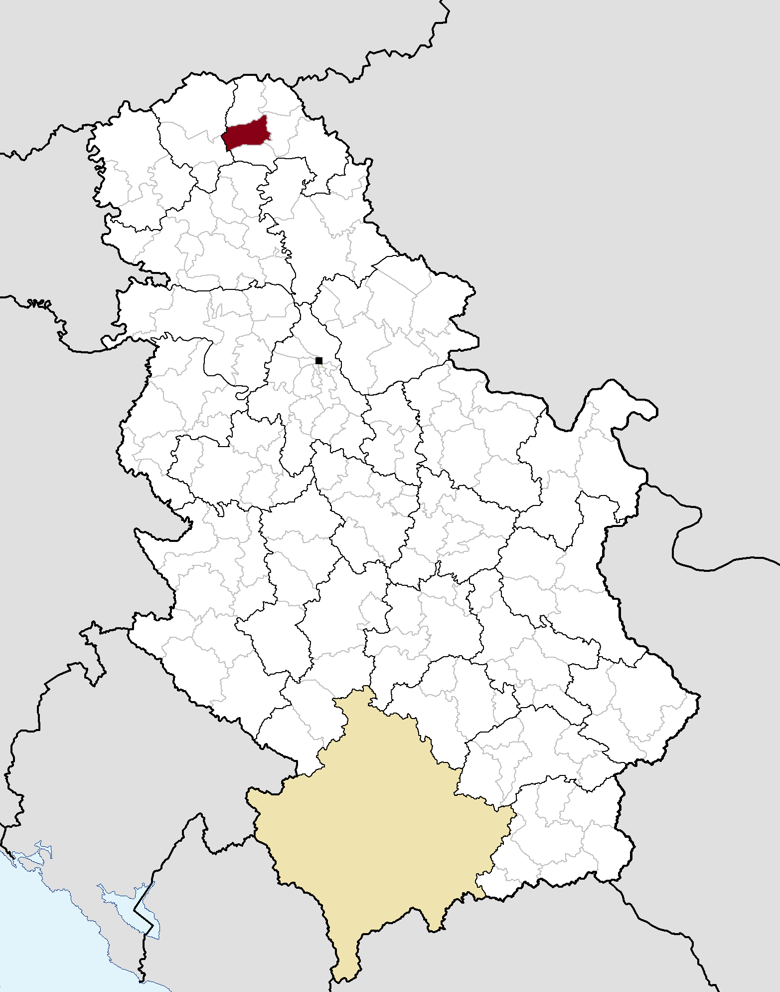 Municipal location in Serbia